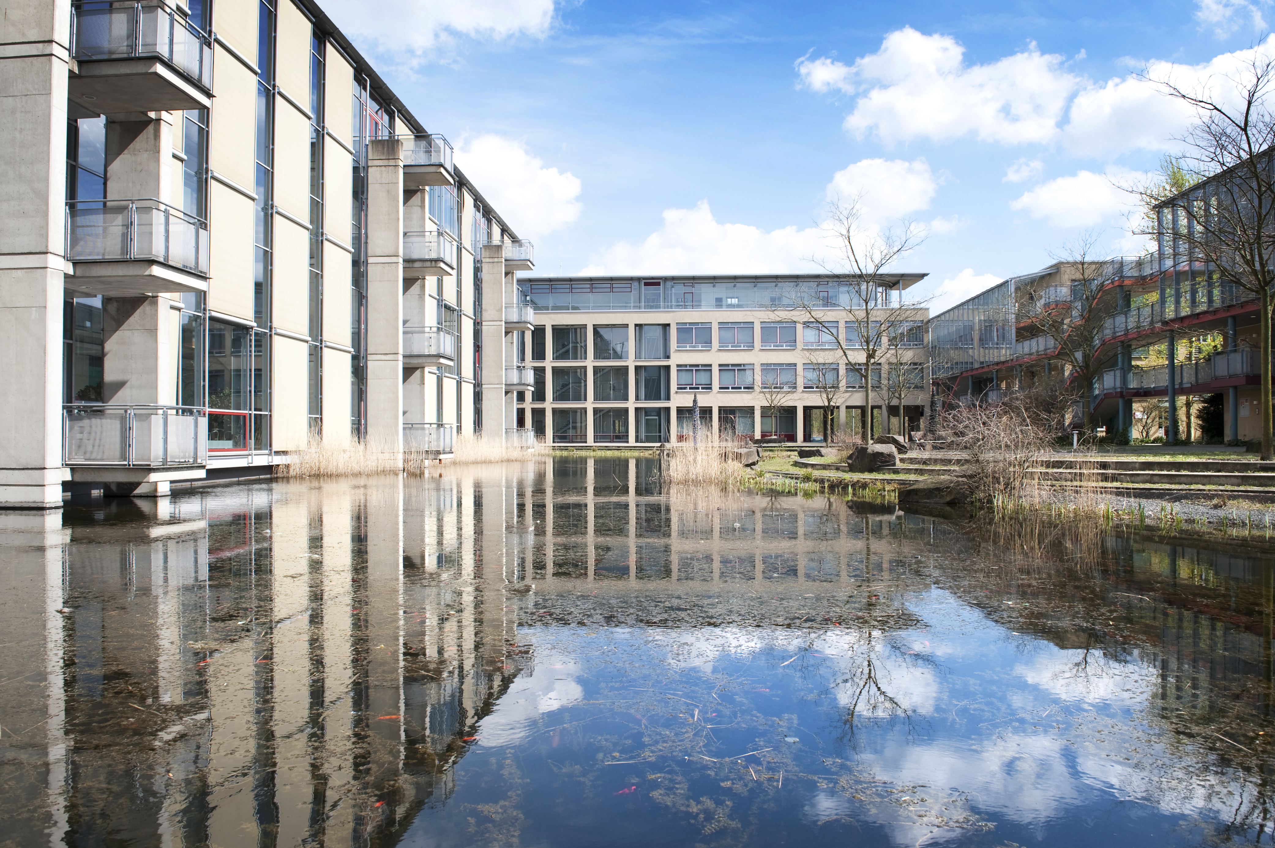 EBZ Business School See